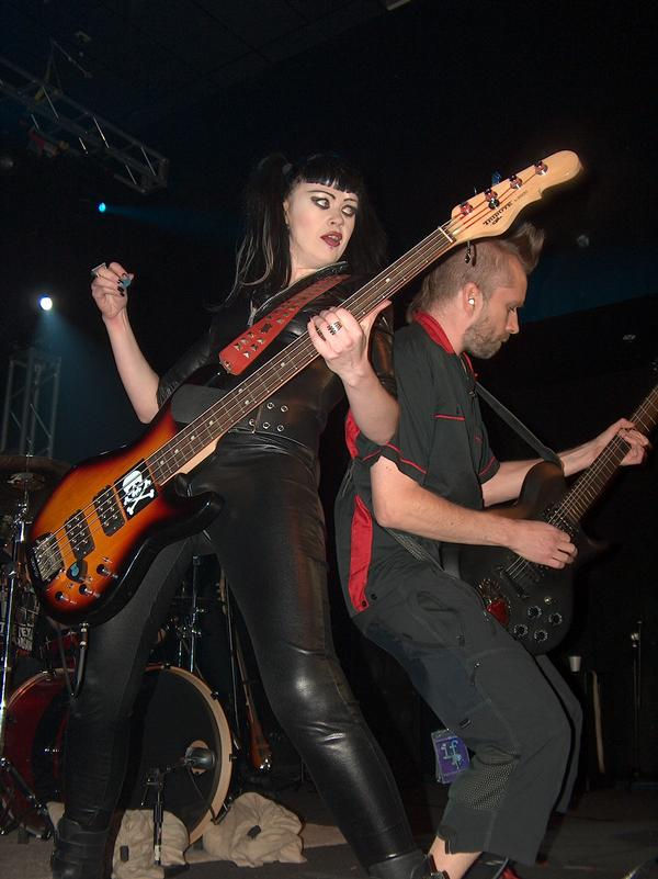 Grog and Drew in San Antonio, Tx.